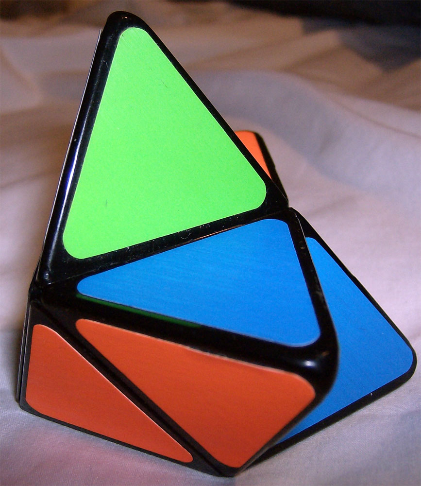 Took the photo myself.